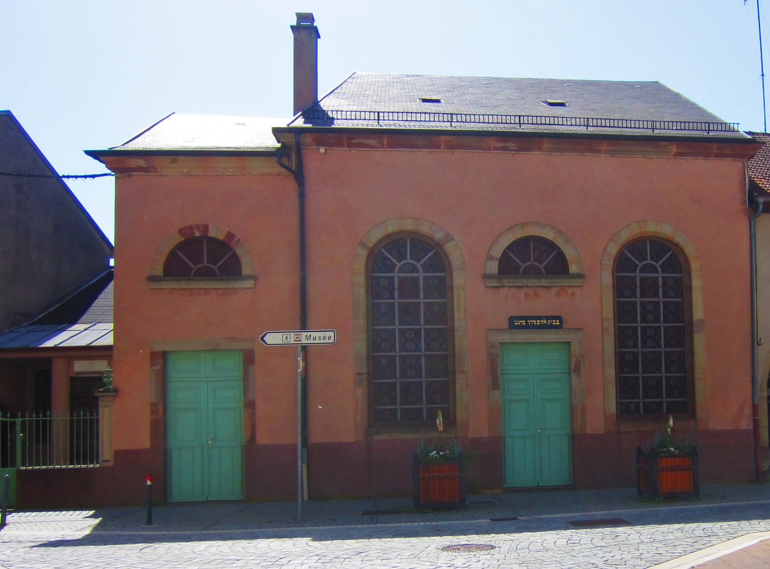 Synagogue Sarrebourg